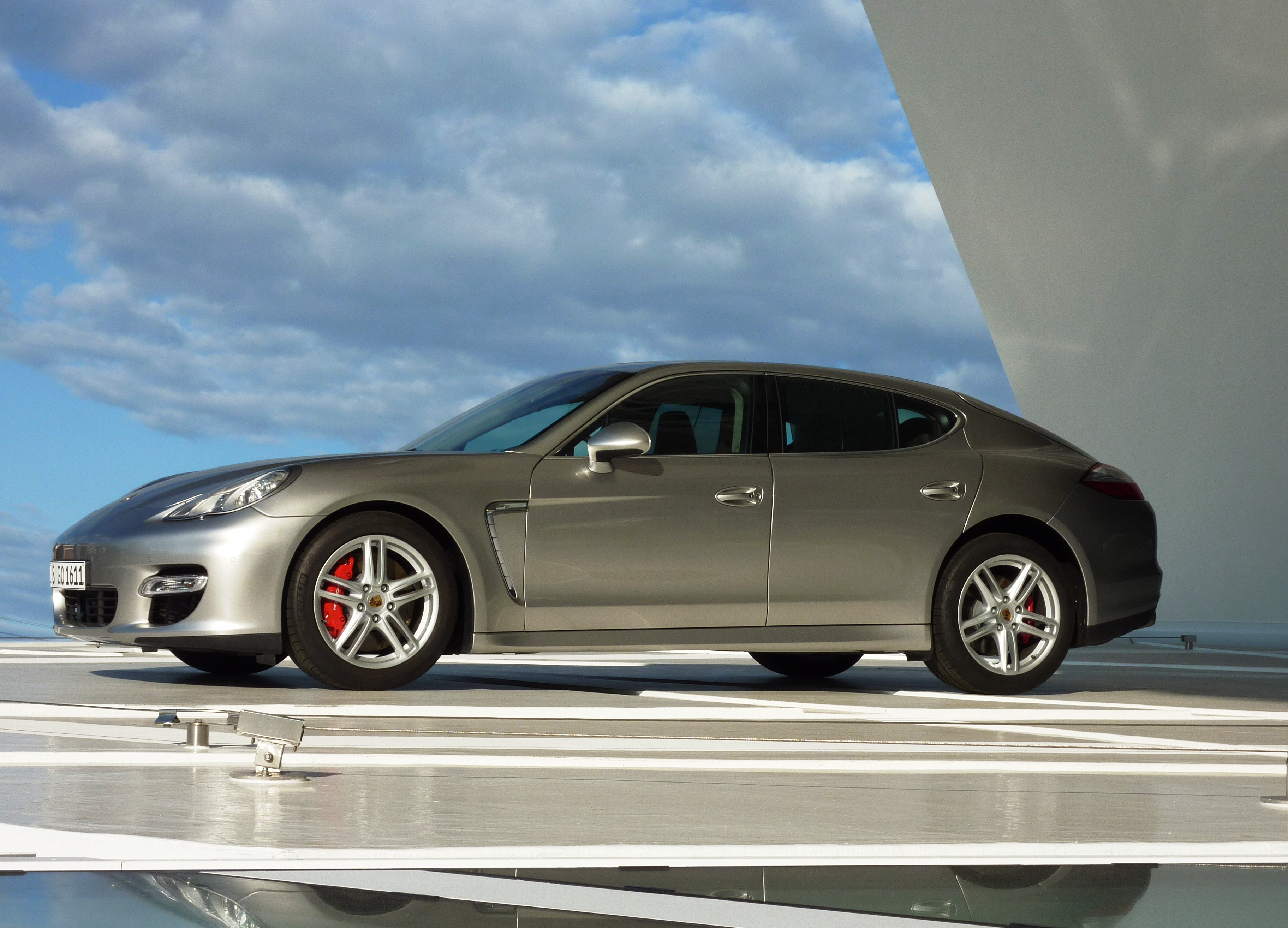 Porsche Panamera outside of the Porsche-Museum in Stuttgart